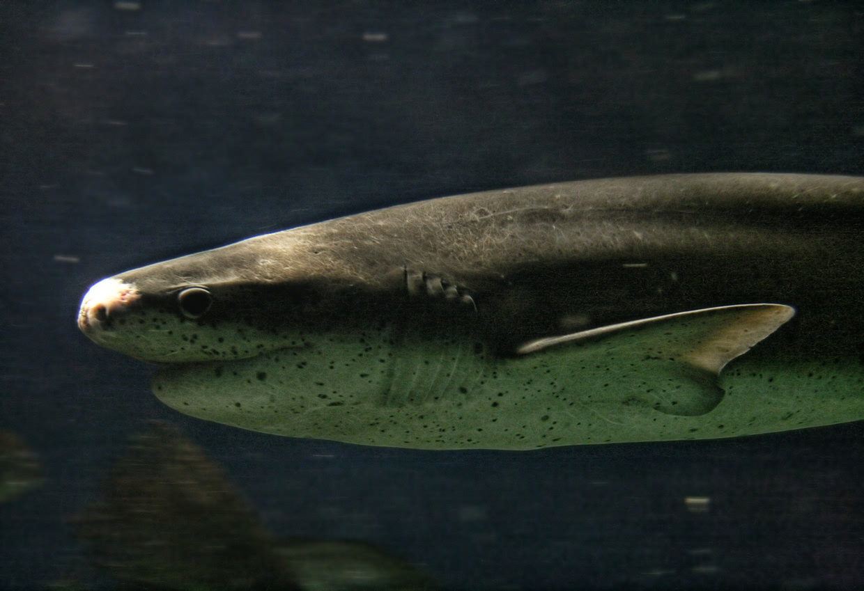 Broadnose sevengill shark (Notorynchus cepedianus) View On Black